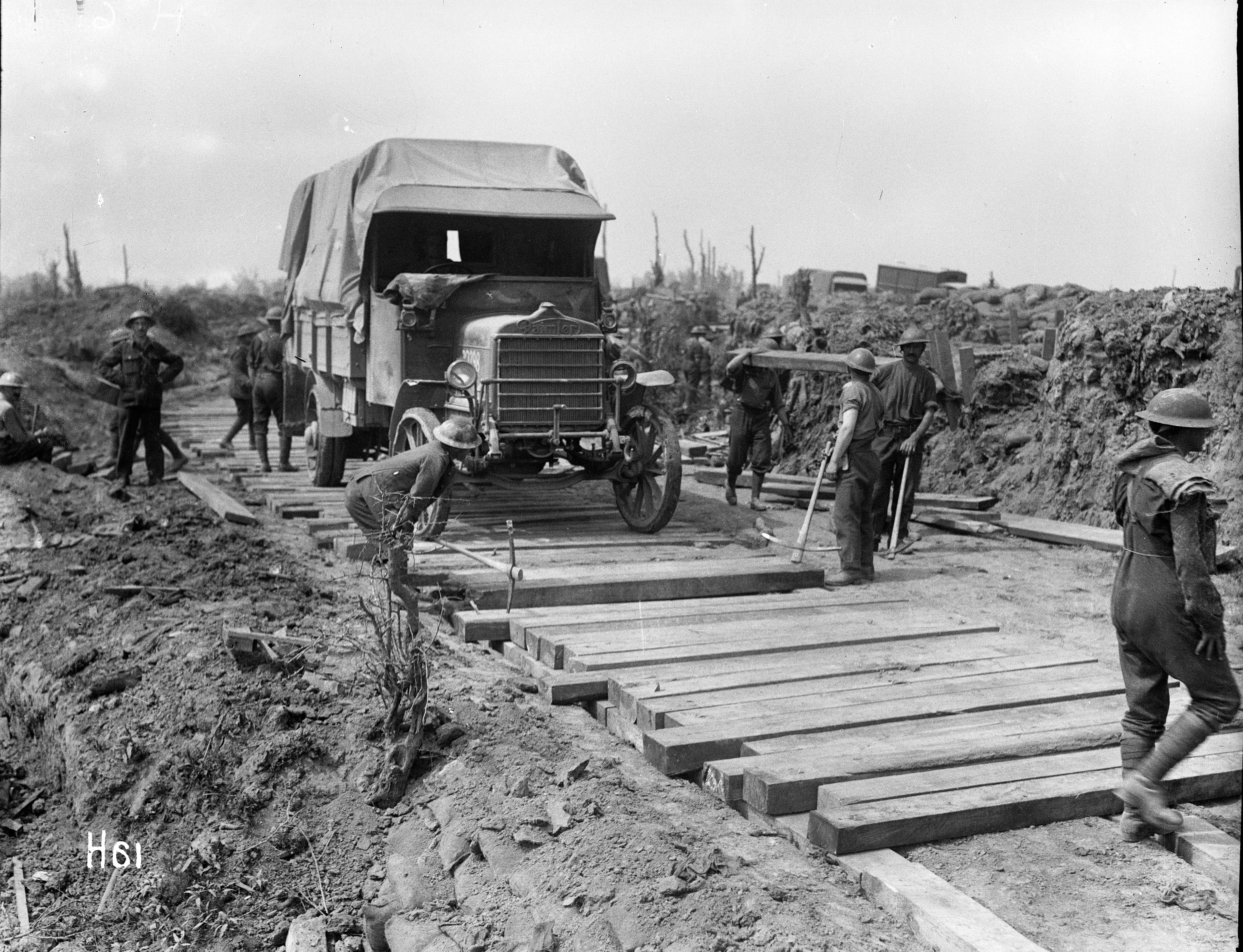 The image was taken by the official New Zealand Expeditionary Force photographer Henry Armytage Sanders. Sanders was an Official NZEF Photographer (service number 37194) and was appointed by the New Zealand Government to document the New Zealand Division during World War One. It is part of a group of photos taken by Sanders which are often referred to as the 'H' series. Archives New Zealand Reference: IA 76/12 H61